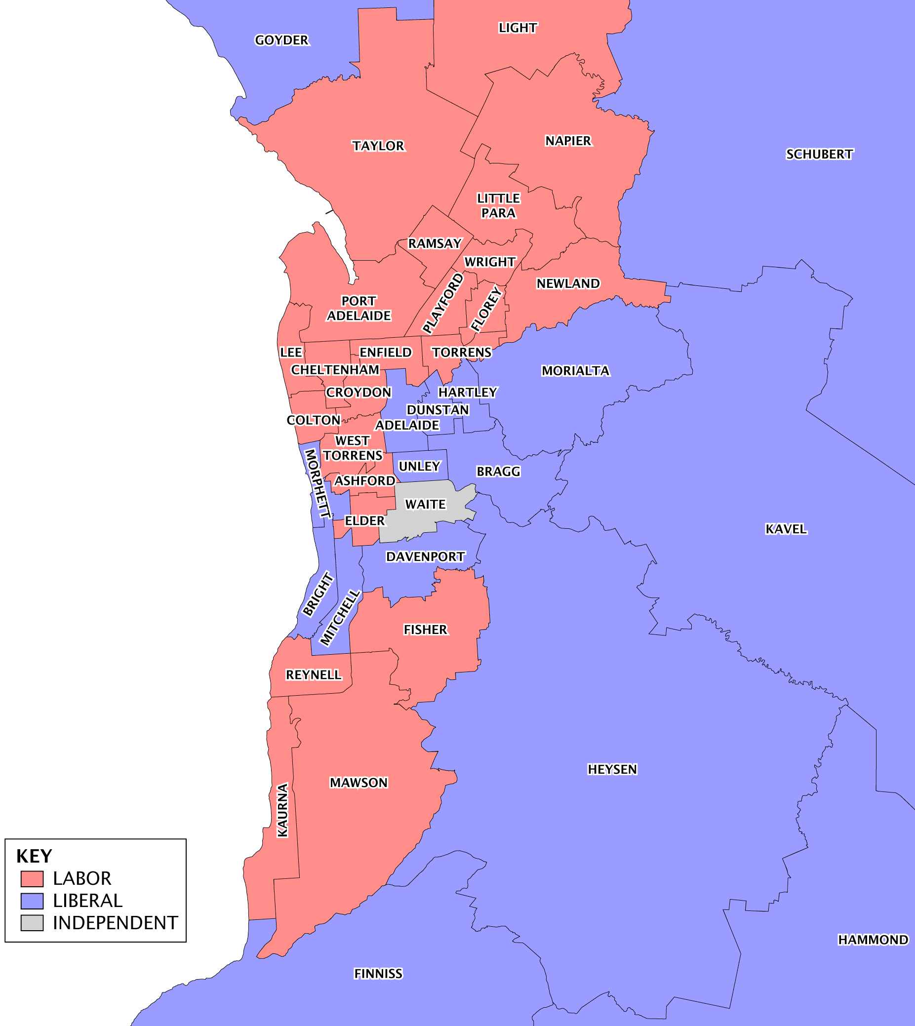 Map of electoral districts in the Adelaide metropolitan area, coloured to represent the party winning the seat at the 2014 South Australian state election and changes since.